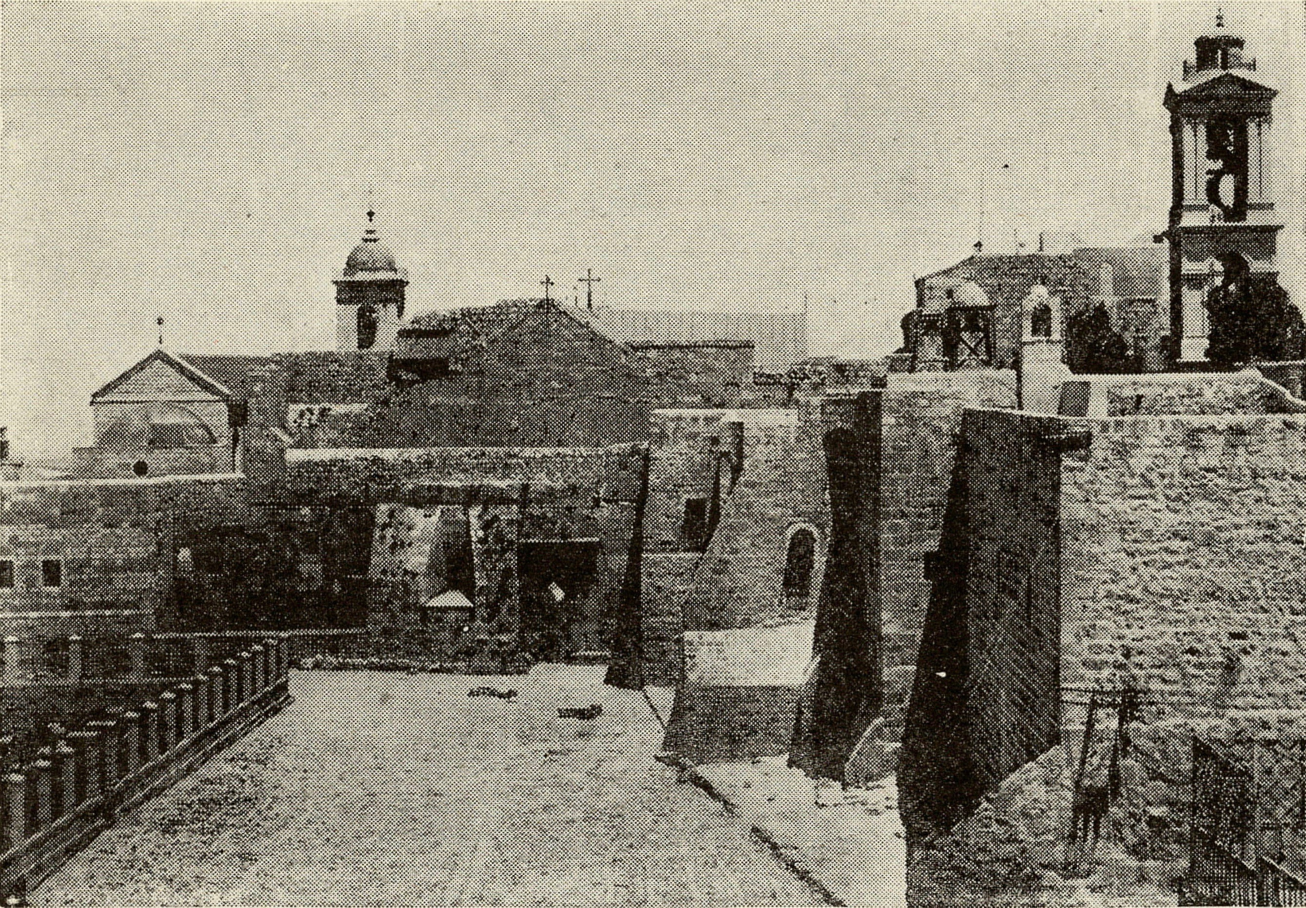 The front of the Church of the Nativity before 1941